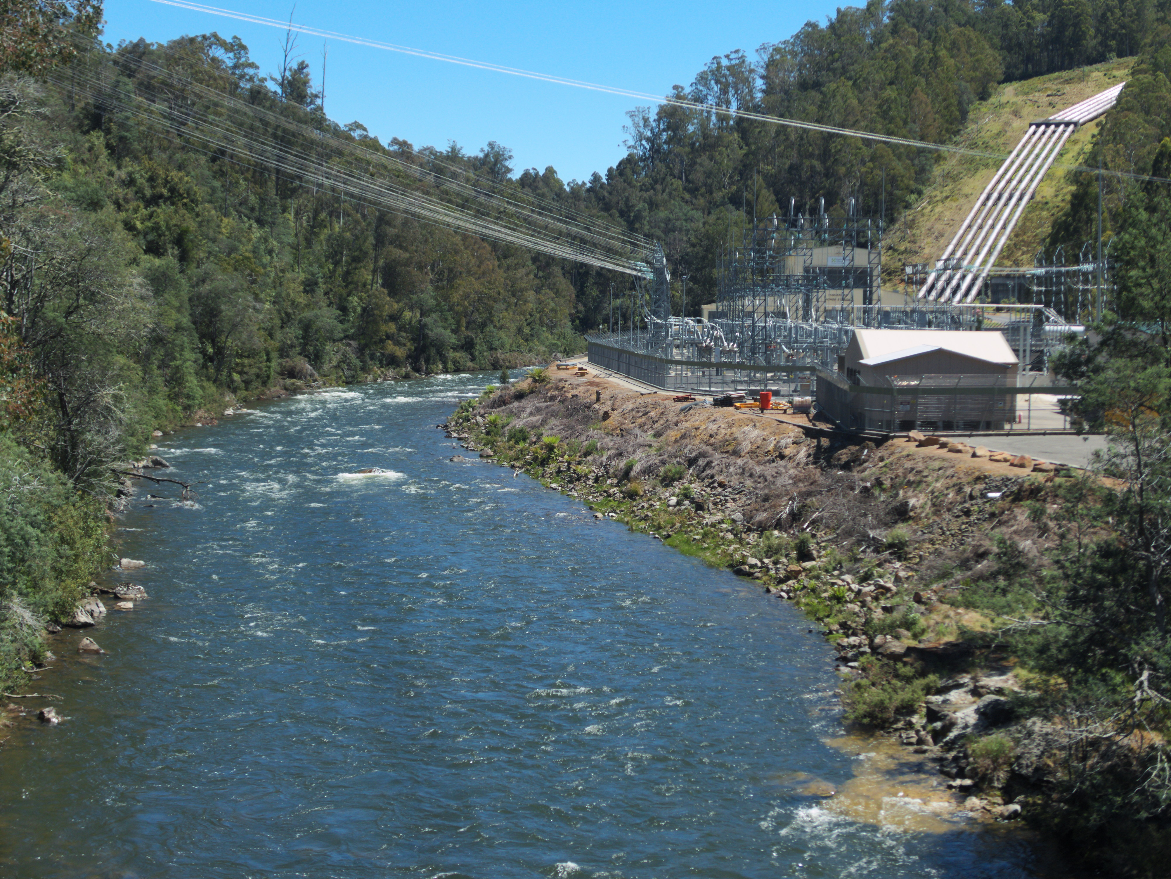 Nive River and Tungatinah power station with Tungatinah substation, seen from the Lyell Highway bridge.